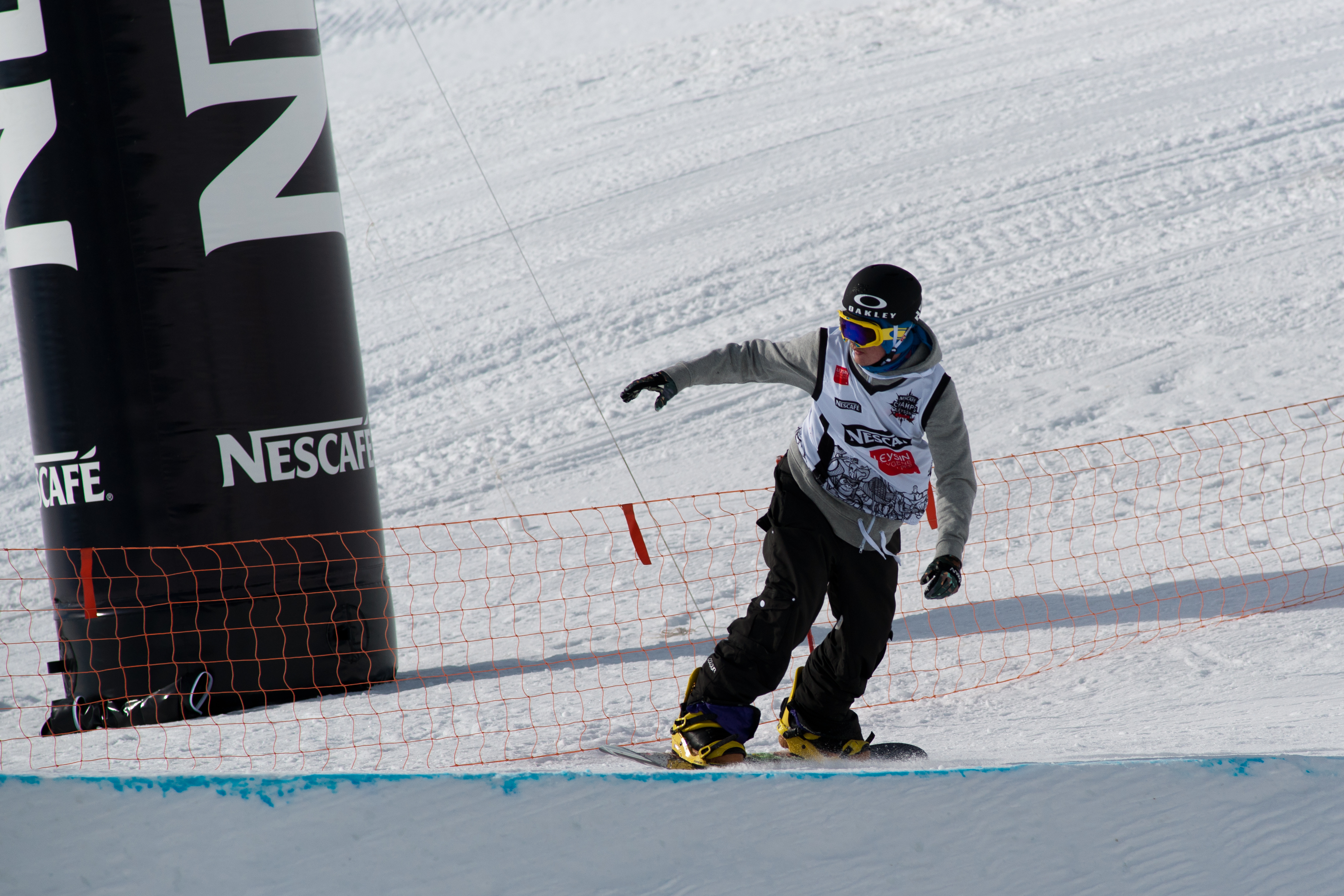 The making of this document was supported by Wikimedia CH. (Submit your project!) For all the files concerned, please see the category Supported by Wikimedia CH. 20th Leysin Nescafe Champs, 8th - 13th February 2011